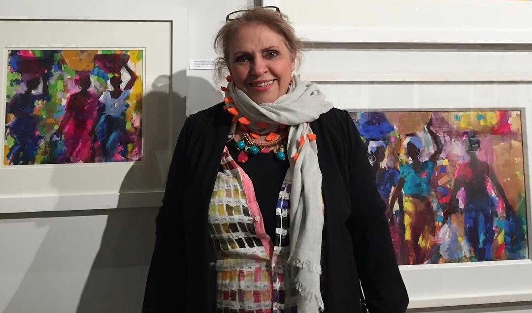 Soraya French PSWA at the 2018 SWA summer exhibition, Mall Galleries, London.